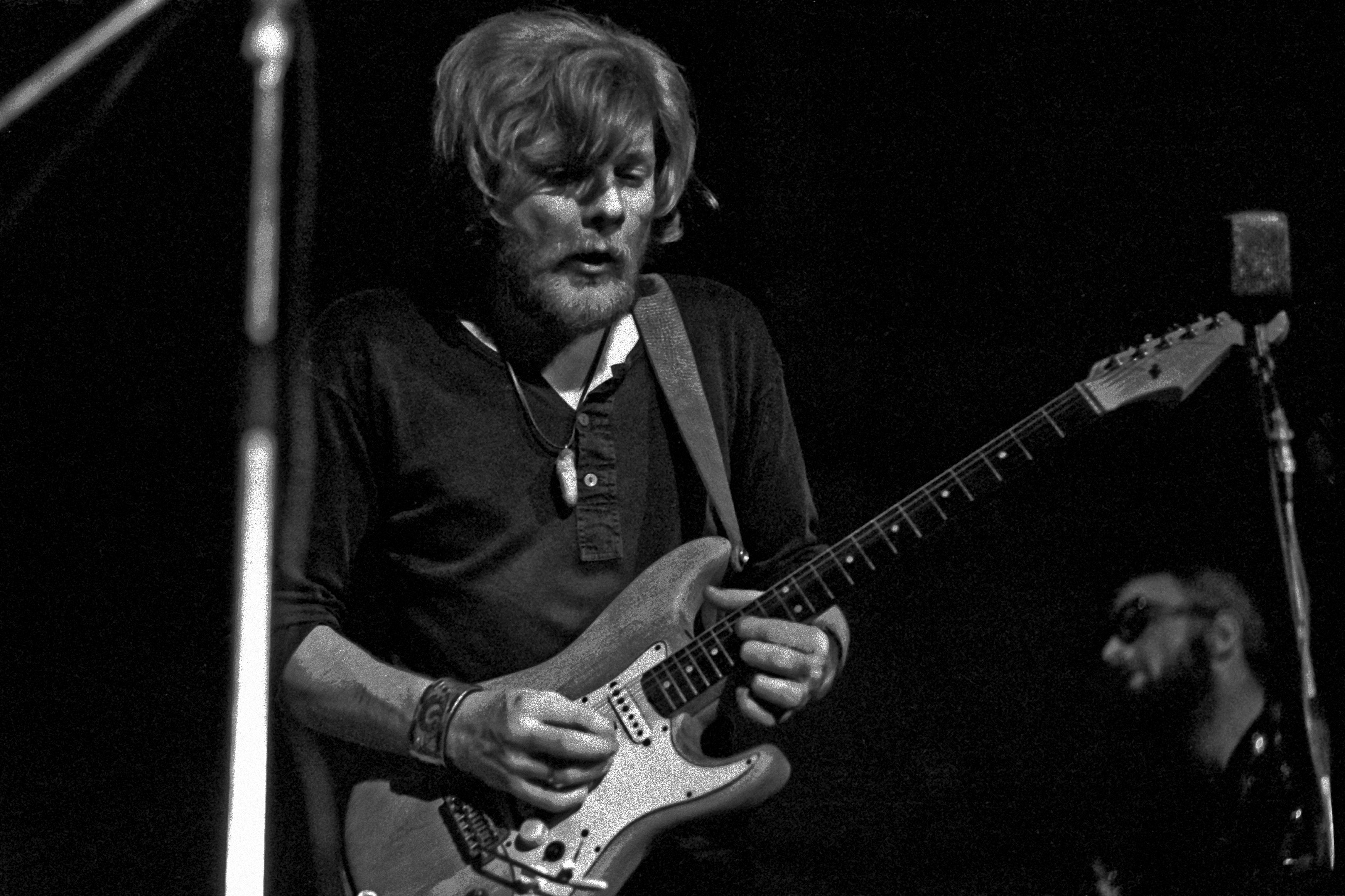 Alexis Korner & Snape, performing with Peter Thorup in the Musikhalle, Hamburg, November 1972. By Heinrich Klaffs